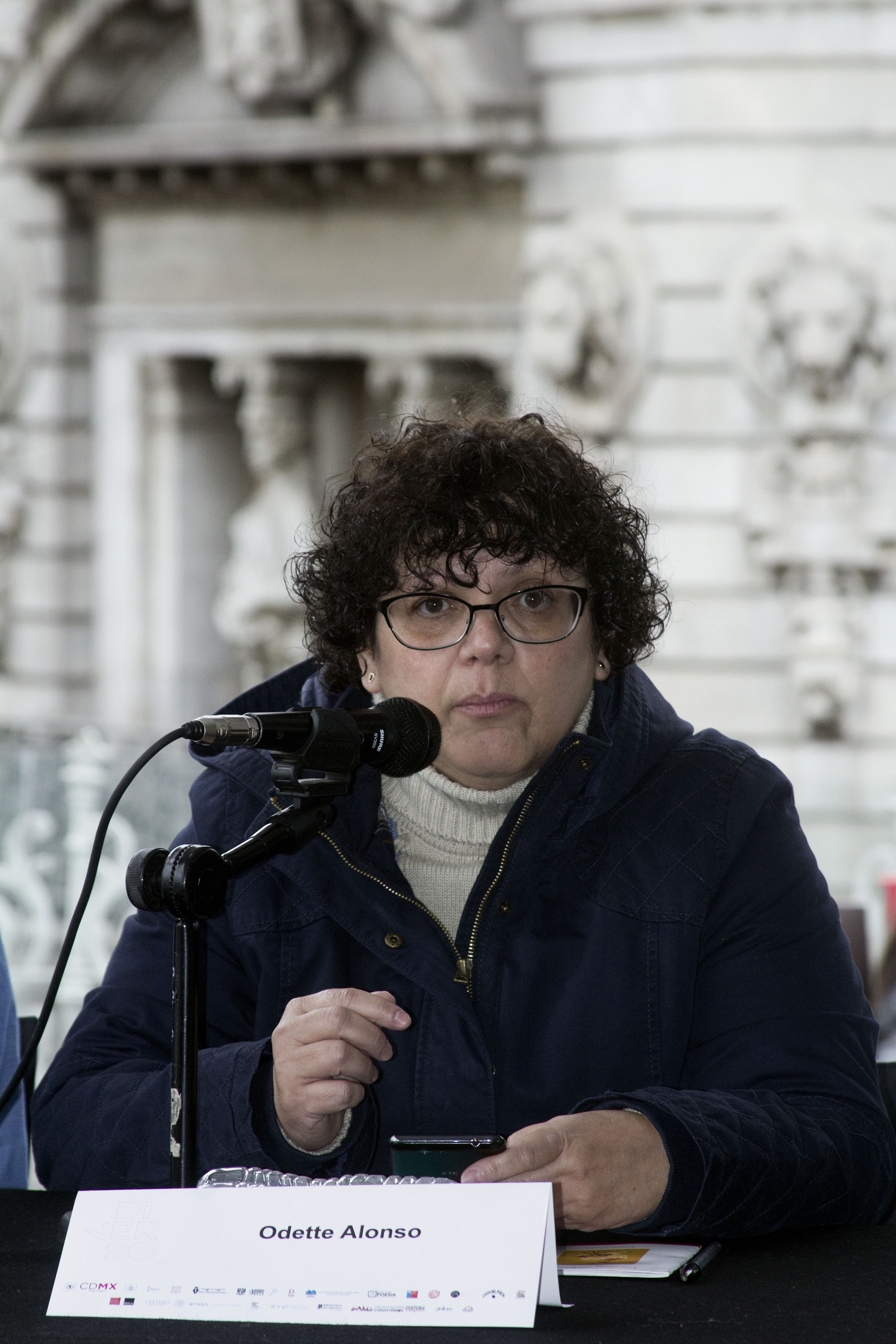 Odette Alonso on a reading of her poems in Mexico City. Saturday, 19 November, 2016.